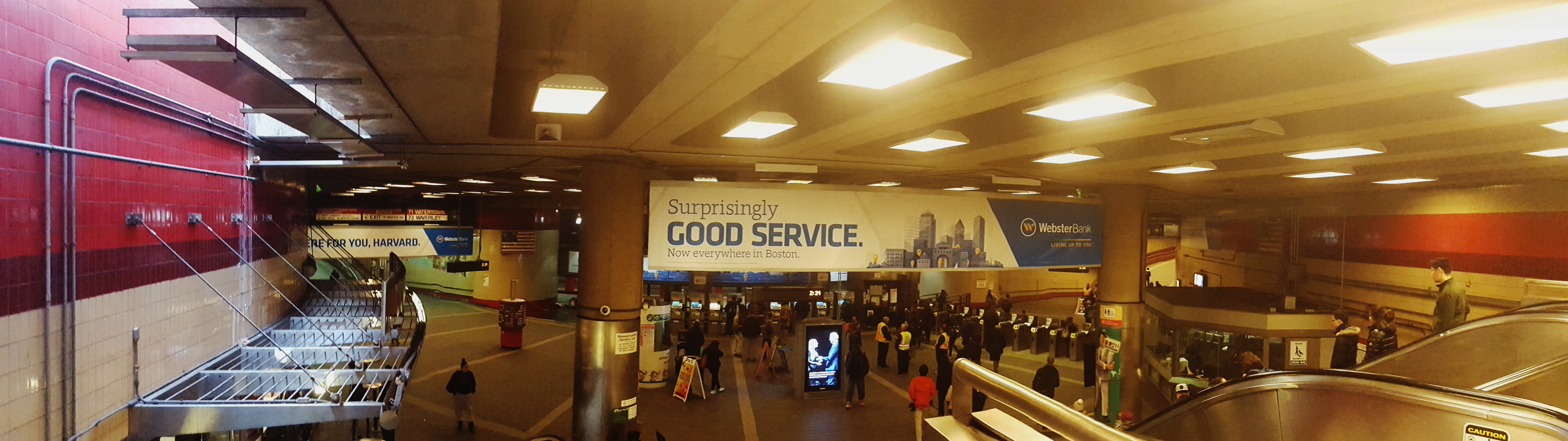 A panorama of Harvard station's central atrium. The entrance to the lower and upper busways can be seen to the left and the fare mezzanine leading to the Red Line platforms can be seen to the right.